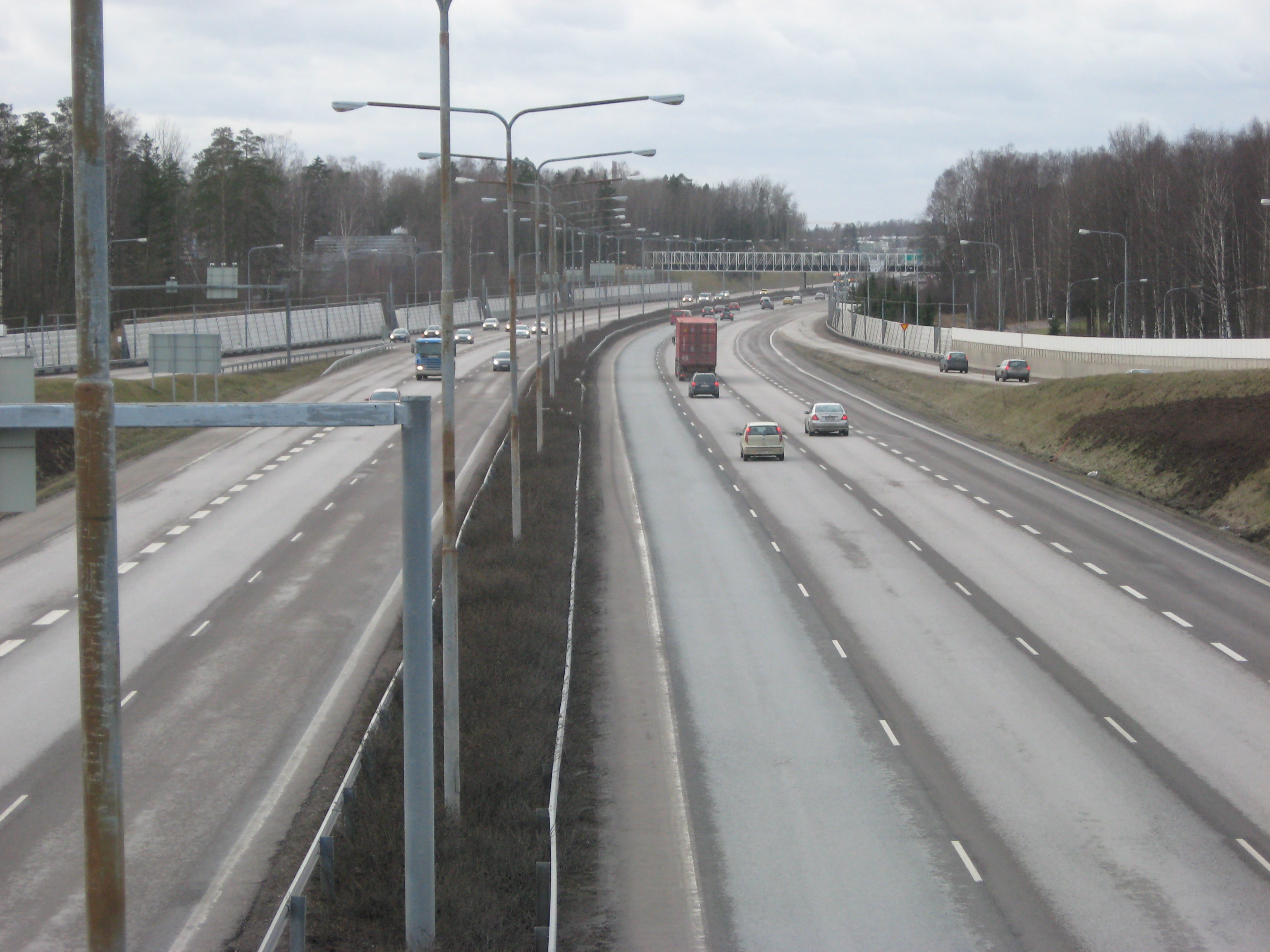 National road 51 (Länsiväylä) in Espoo, Finland